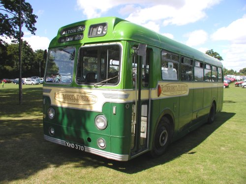 AEC Reliance